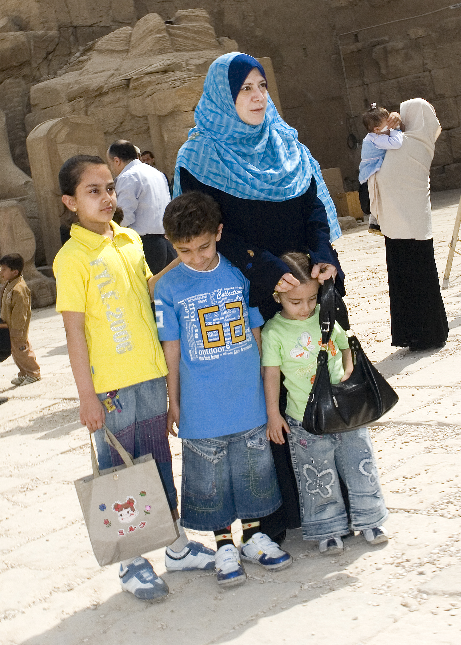 Tourists at Temple of Carnac posing for someonelse